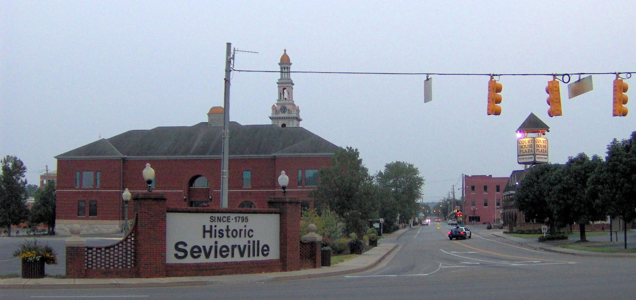 Sevierville, Tennessee, located in the southeastern United States. The town was founded in 1795.